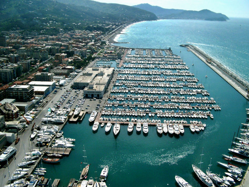 Turistic harbour of Lavagna (Genoa, Italy)